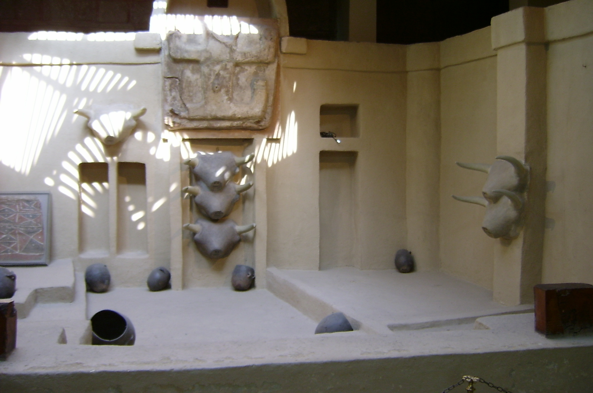 A reconstructed sanctuary of Catal Hüyük in Angora Museum